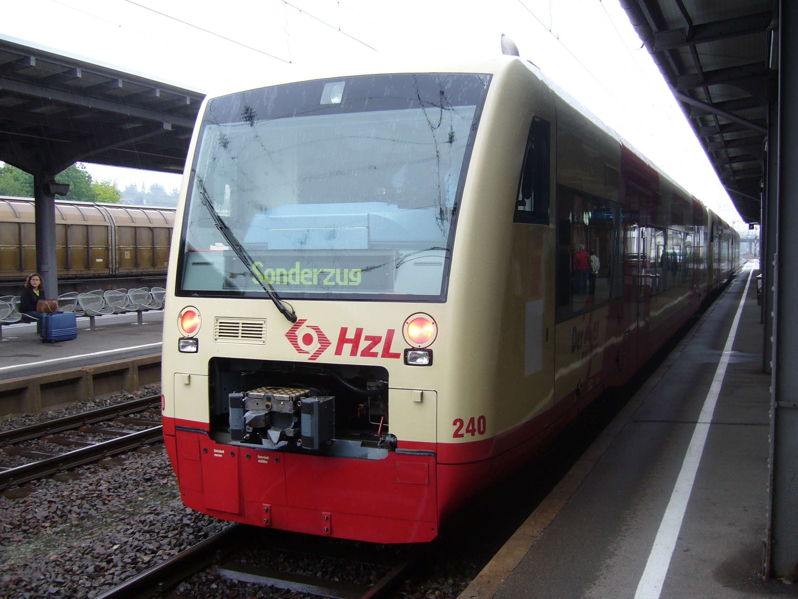 Ringzug train in Villingen, Germany